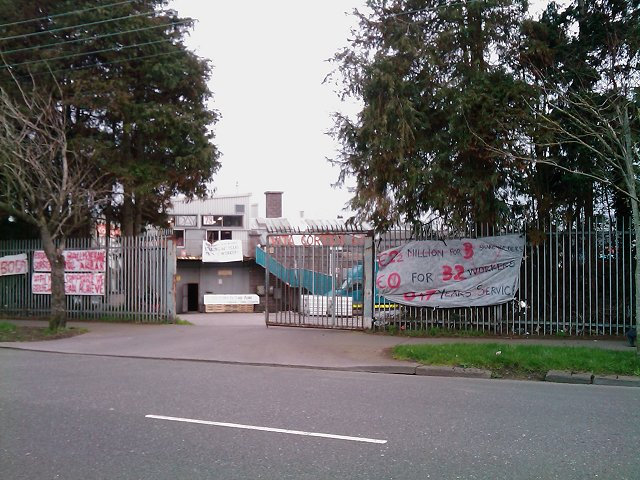 Vita Cortex Factory